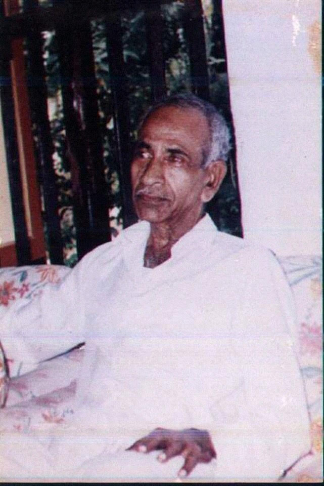 V.V.Abdulla.Sahib